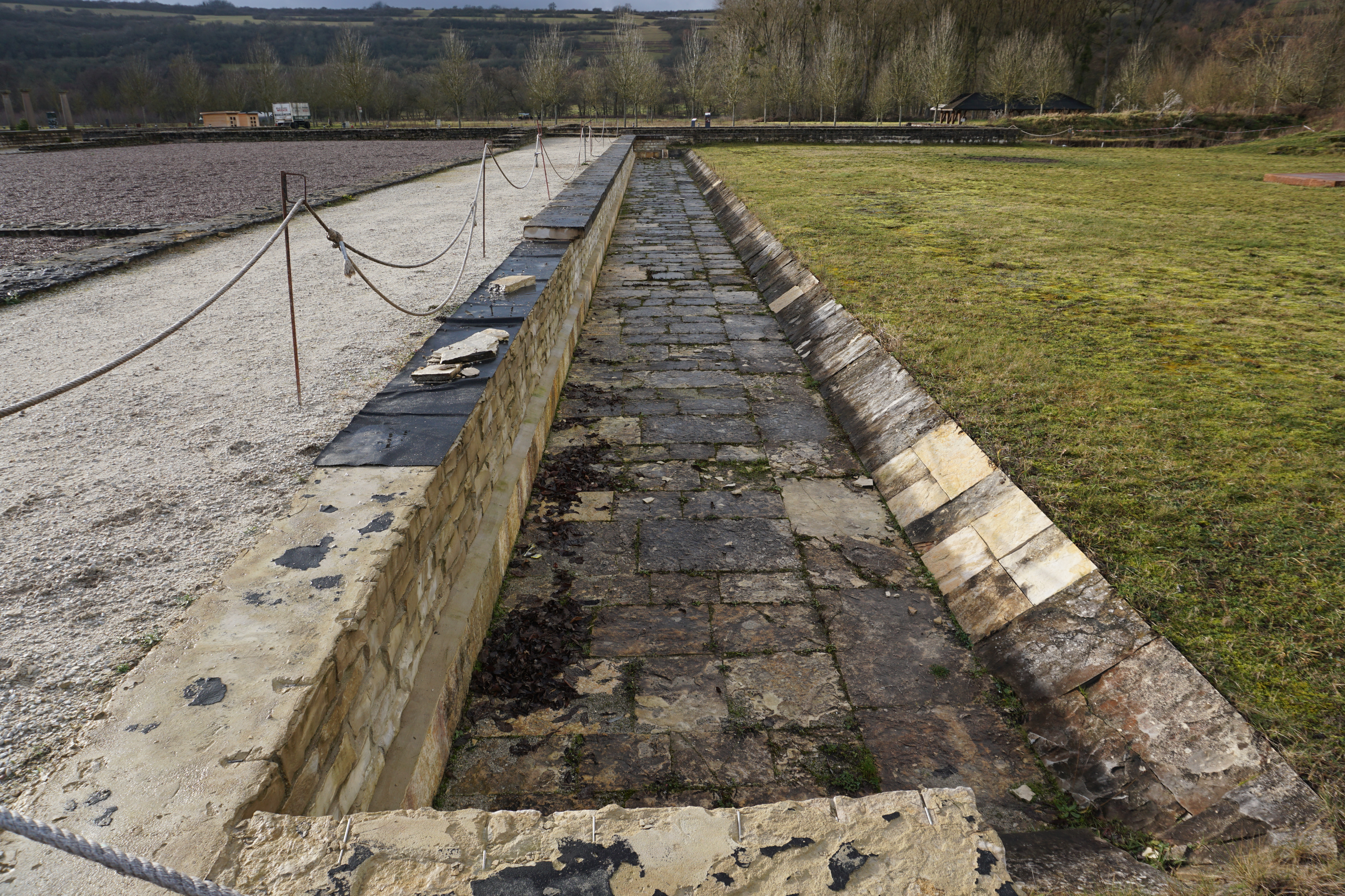 The reconstructed water basin on the north side of the Roman Villa of Reinheim.